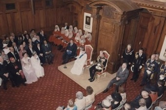 State Opening of the New Zealand Parliament by the Queen in 1986.